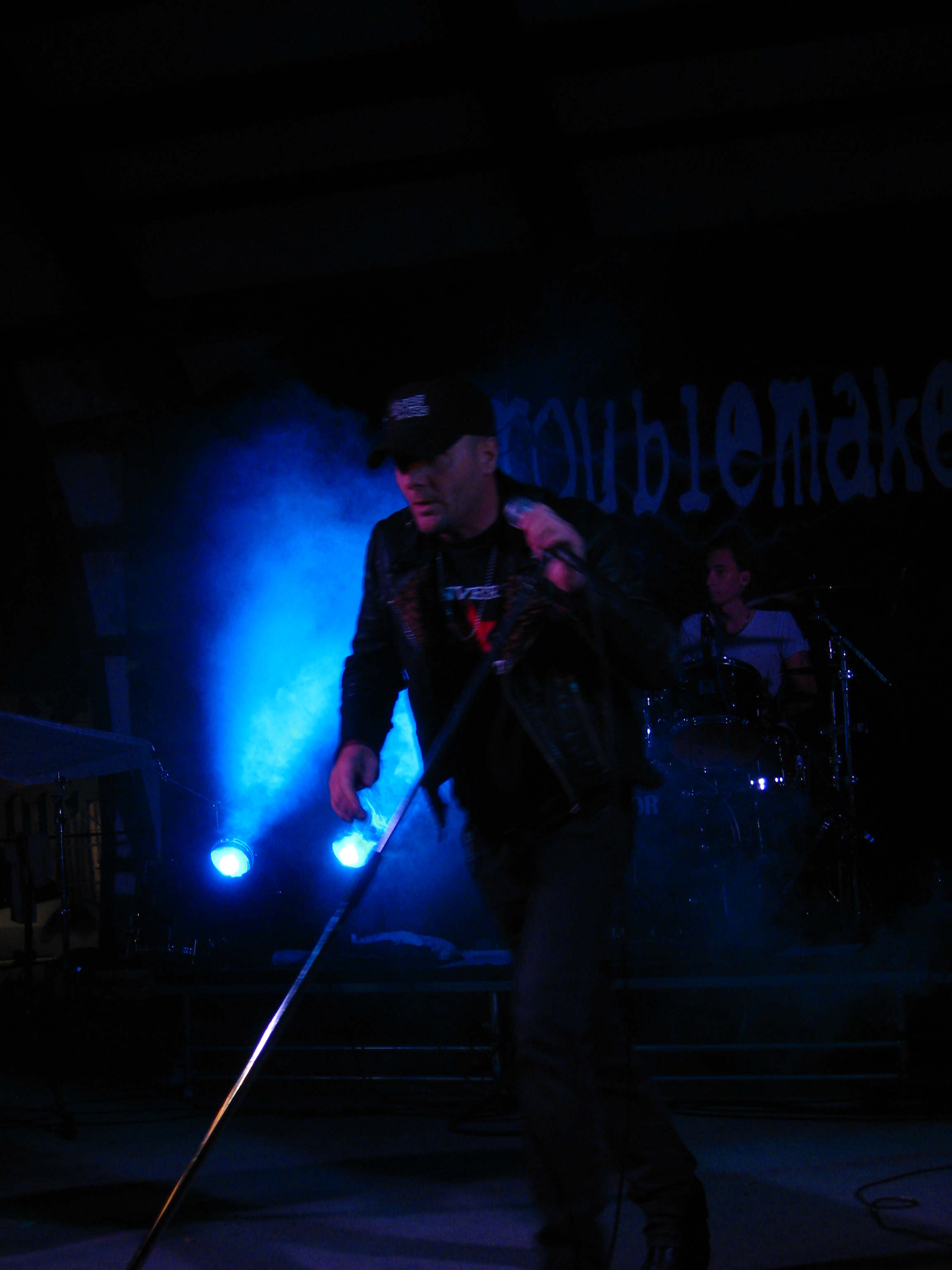 Troublemakers playing at Pretzeltown festival in Södertälje.